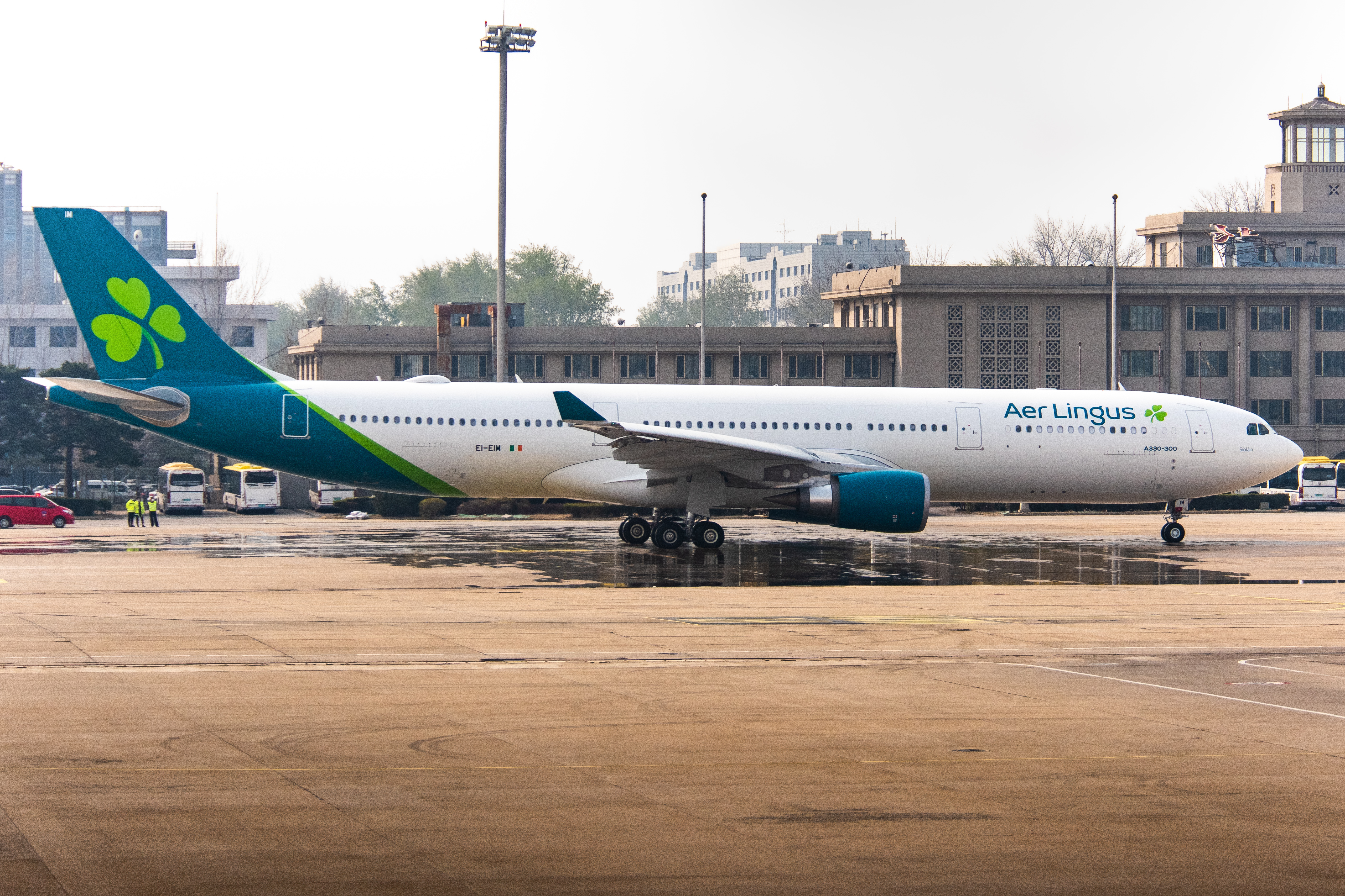 Shamrock 9019 to Dublin, taxiing past "Terminal 0" en route to 36L. Obviously Ireland has become extremely anxious - Aer Lingus even wanted to fly 5 flights daily from Beijing to transport medical supply for COVID-19.